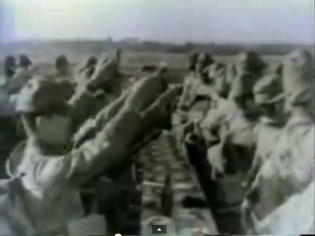 Members of the Giretsu Kuteitai sharing ceremonial cups of sake or water known as "mizu no sakazuki" before their departure to Okinawa, May 24, 1945